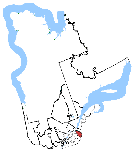 Beauce (electoral district)